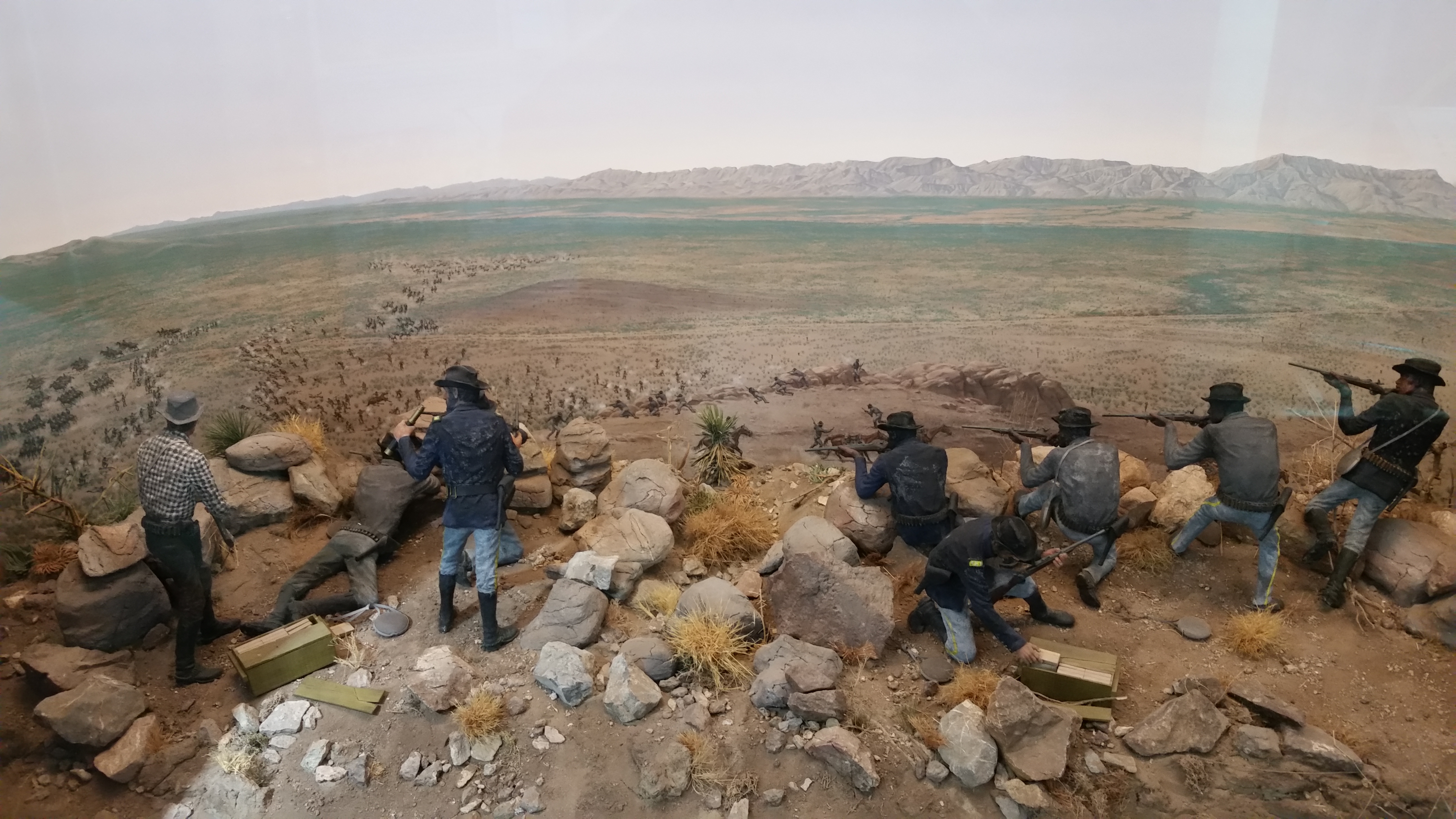 Buffalo Soldiers: Battle at Quitman Canyon, 30 July 1880, 10th US Cavalry Troops A, C, and G stop Victorio